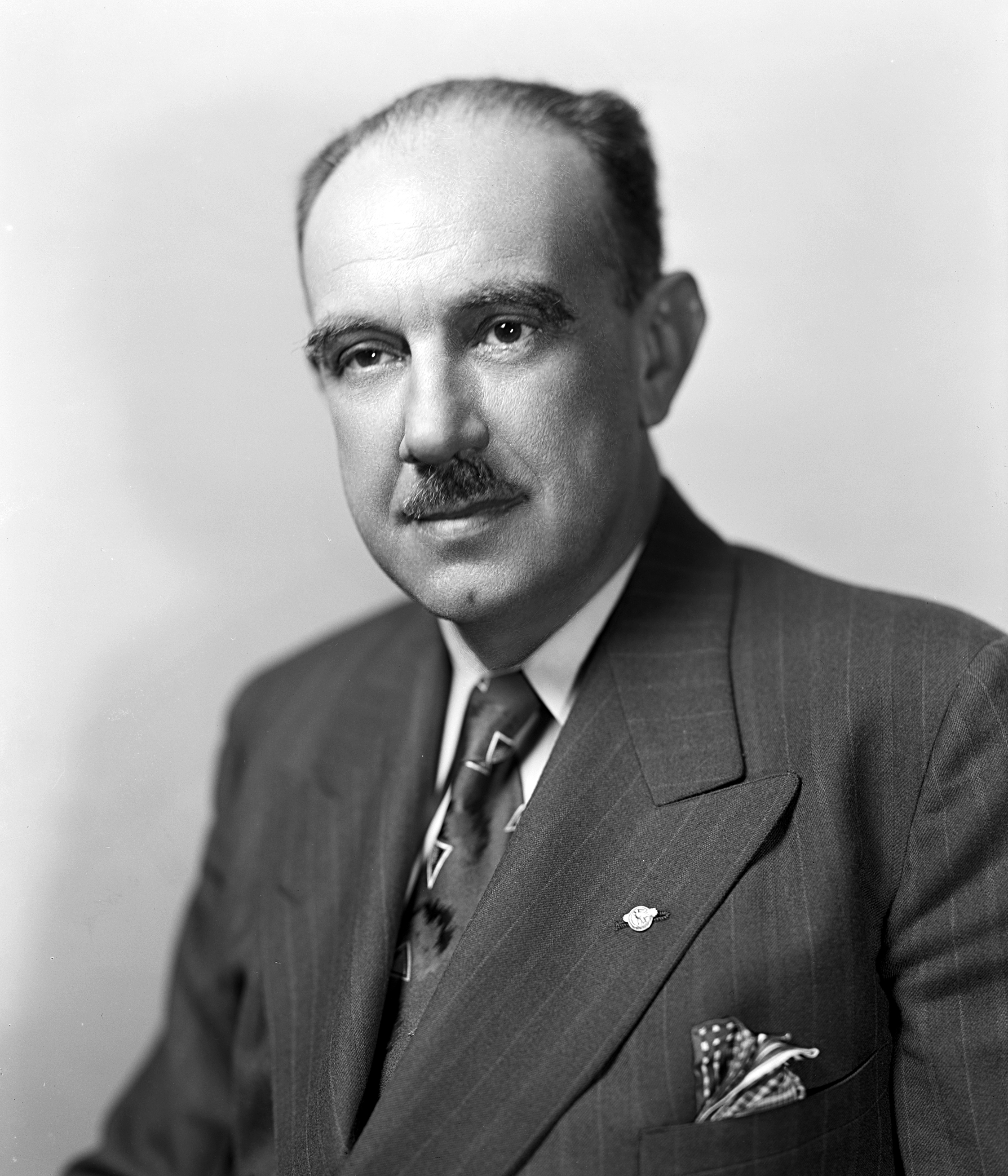 Edward Tylor Miller, US Representative from Maryland